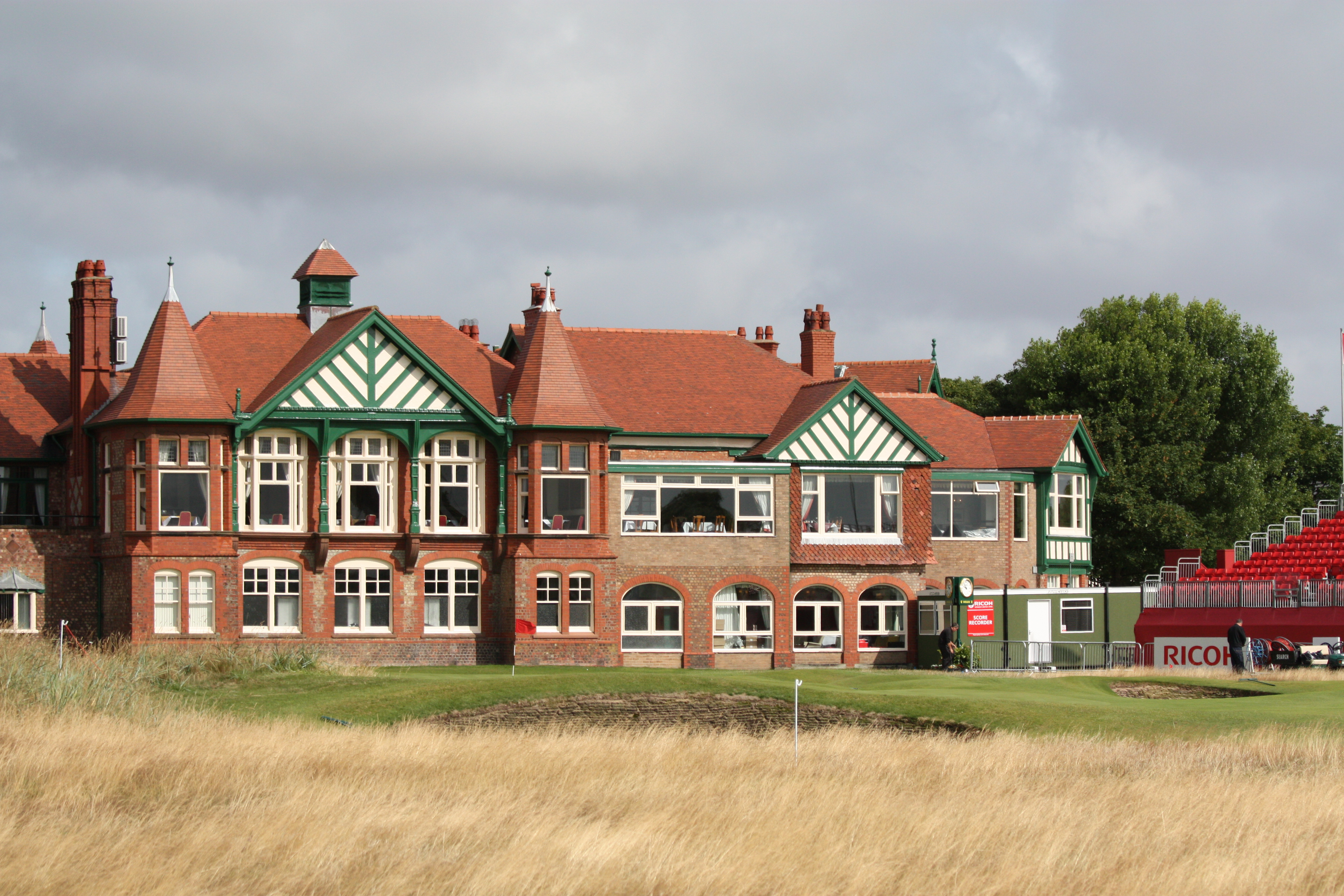 LYTHAM ST ANNES, UNITED KINGDOM - JULY 27: 18th hole green and the clubhouse before 2009 Ricoh Women's British Open held at Royal Lytham & St Annes on July 27, 2009 in Lytham St Annes, England. (Photo by Wojciech Migda)